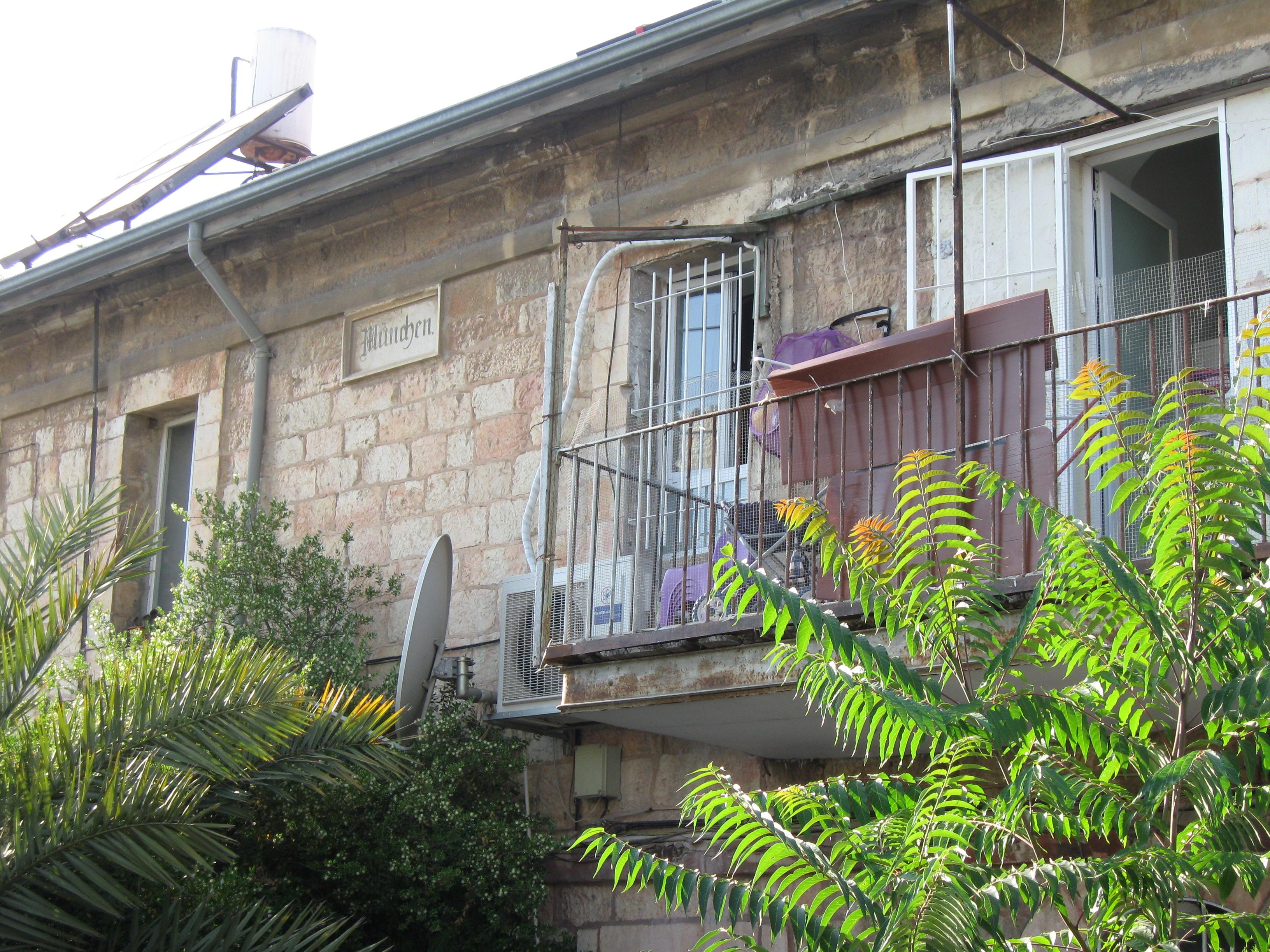 Exterior of a "Schneller House" built by Johann Ludwig Schneller for workers at the Schneller Orphanage in Jerusalem. The name "Munchen" (Munich) is engraved on a stone plaque, commemorating the city from which donors for the building hailed.